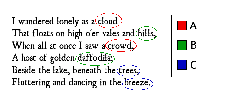 Rhyme scheme of the ballad I Wandered Lonely as a Cloud by William Wordsworth